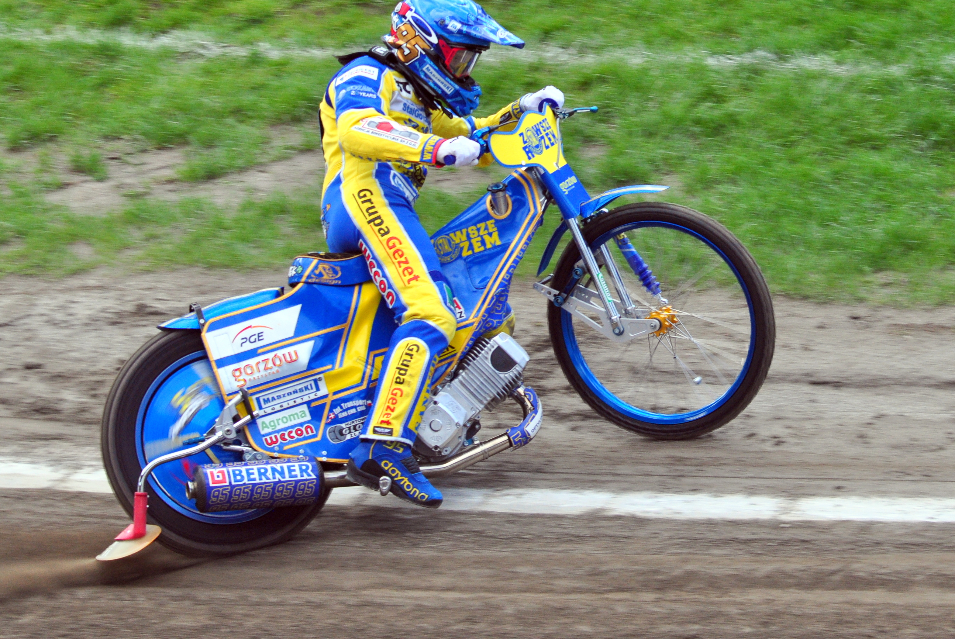 Bartosz Zmarzlik – Polish speedway rider, 2019 individual world champion; pictured in 2016